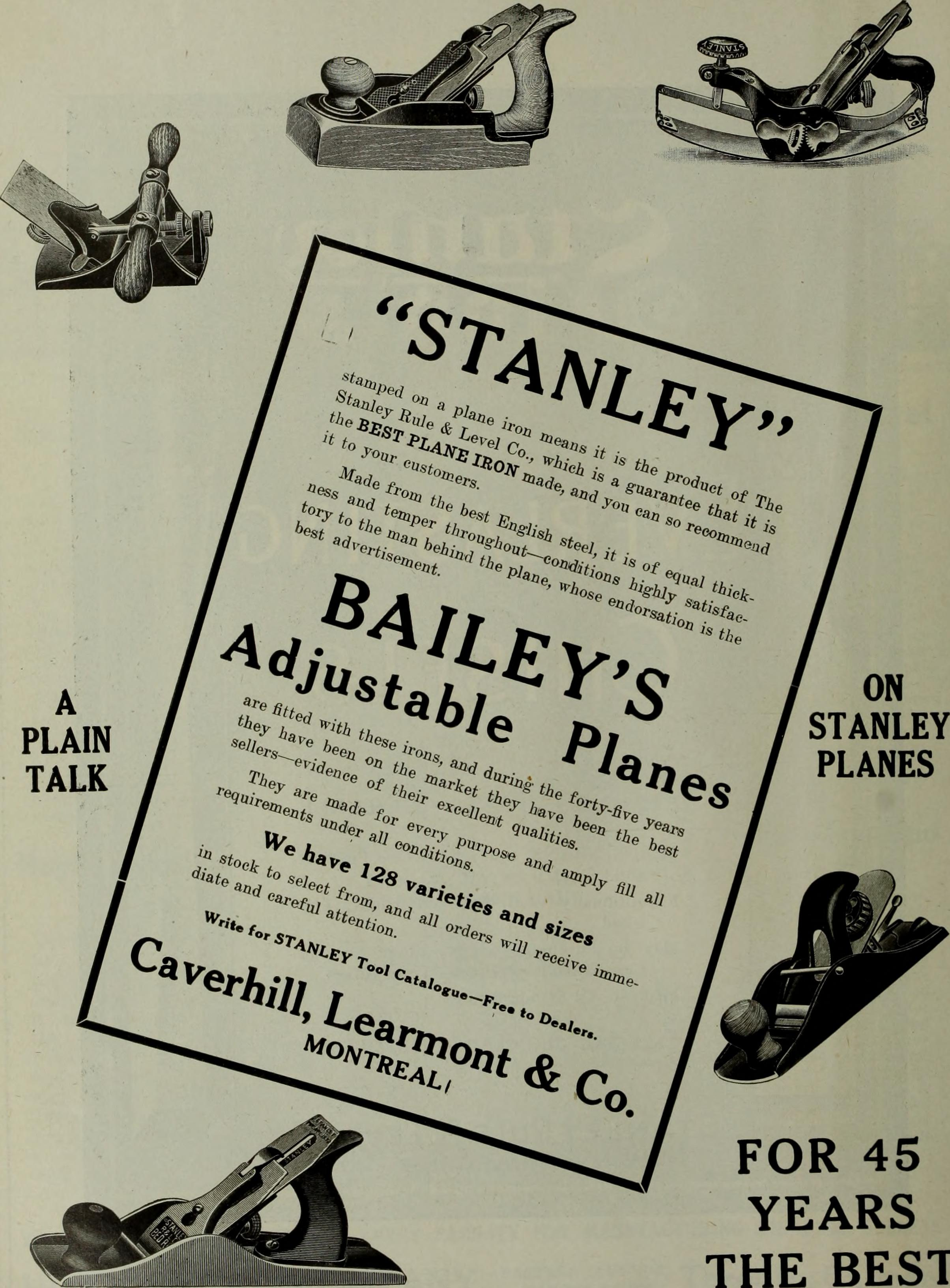 Title: Hardware merchandising January-March 1916 Year: 1916 (1910s) Authors: Subjects: Hardware industry Hardware Implements, utensils, etc Building Publisher: Toronto : Text Appearing Before Image: When writing advertisers please mention Hardiuare and Metal. 24 m HARDWARE AND METAL March 18, 191«. Text Appearing After Image: FOR 45 YEARS THE BEST IRON SMOOTH PLANE 7/ interested, tear out this page and keep with letters to be answered. March 18, 1916. HARDWARE AND METAL 25